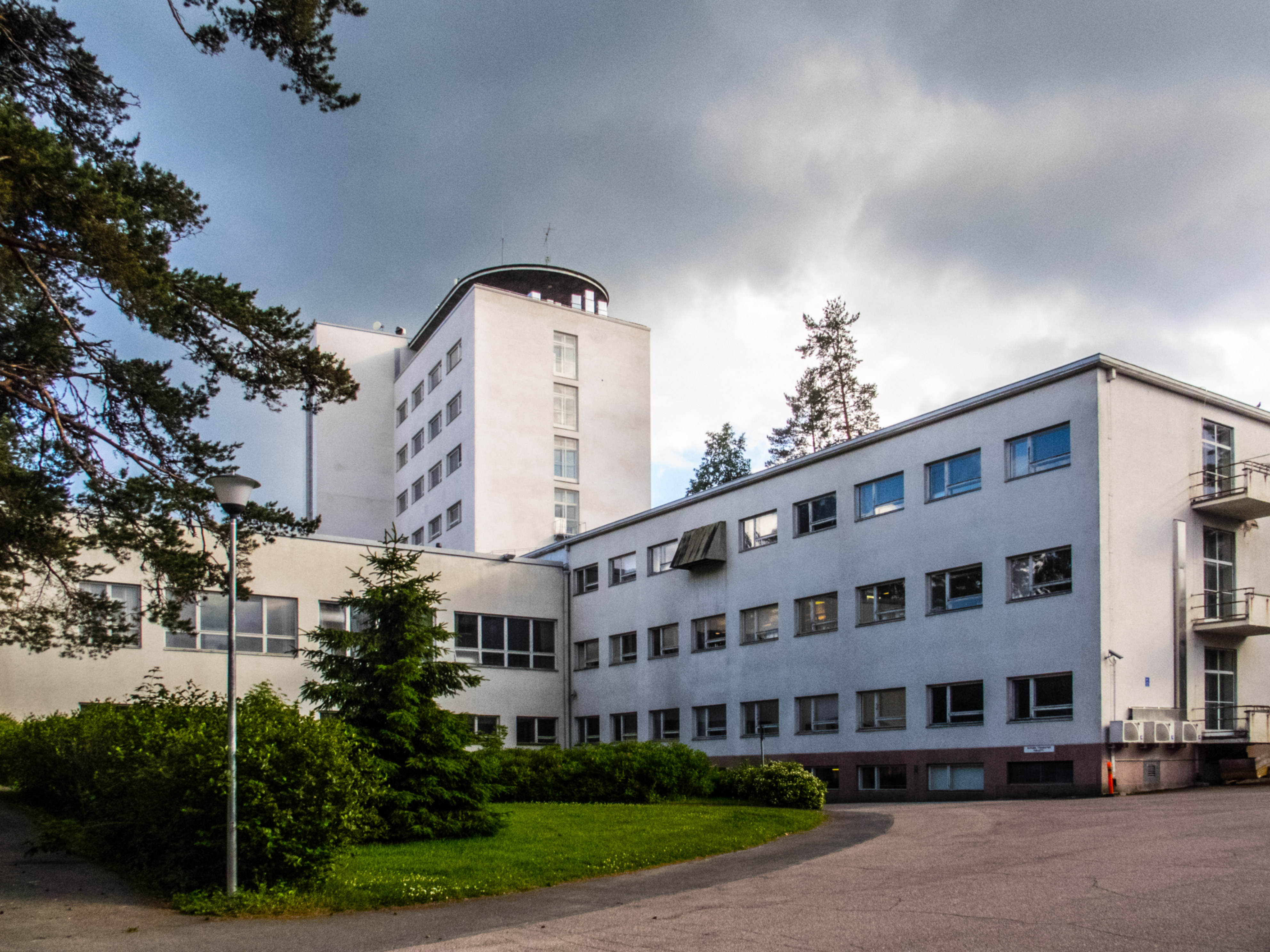 Kiljava sanatorium hospital by the lake Sääksjärvi in Nurmijärvi, Finland. Architect Jussi Paatela 1936–1938.